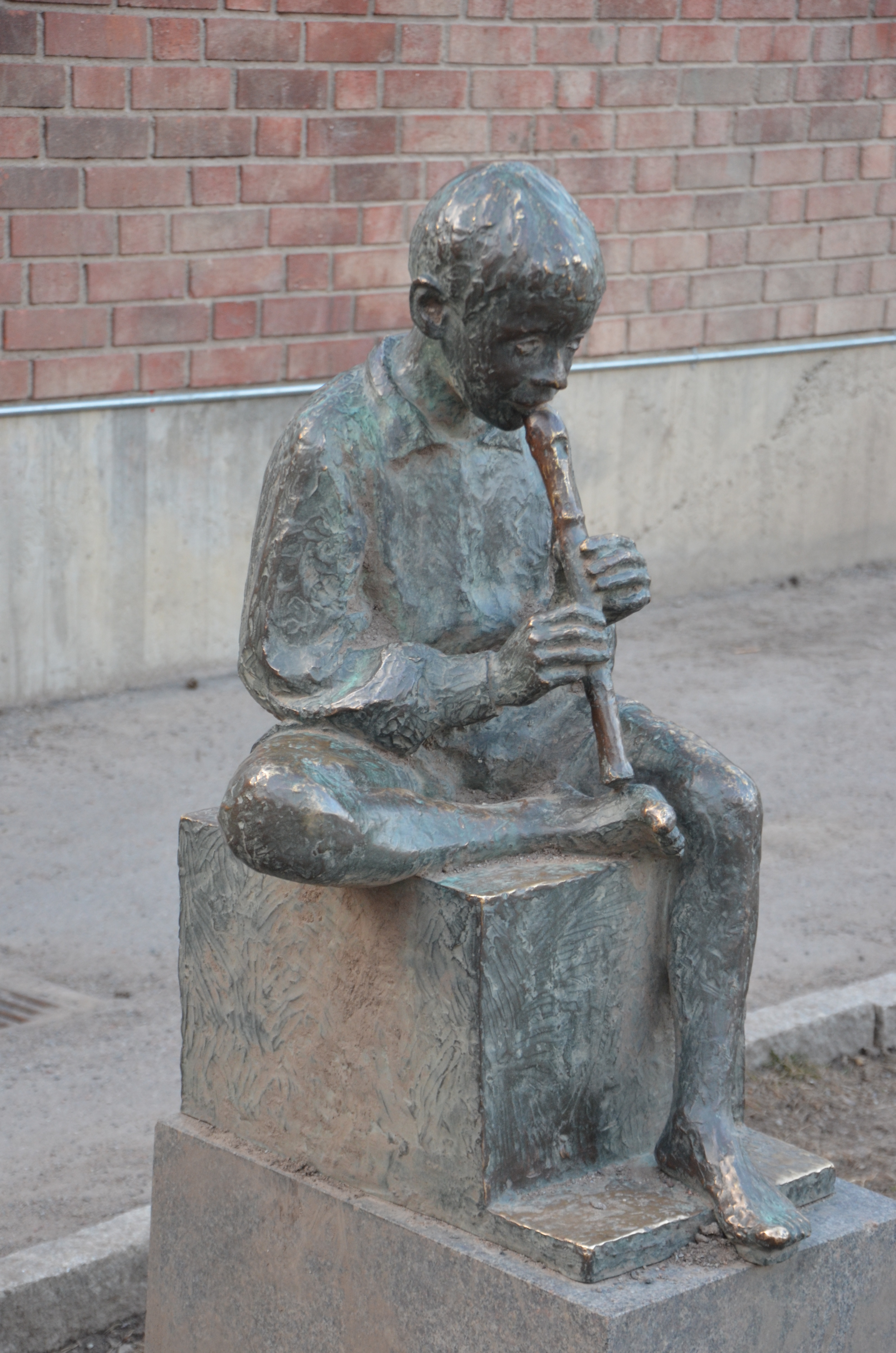 Flöjtspelande pojke av Wive Larsson, Herrängens skola, Stockholm, Sweden